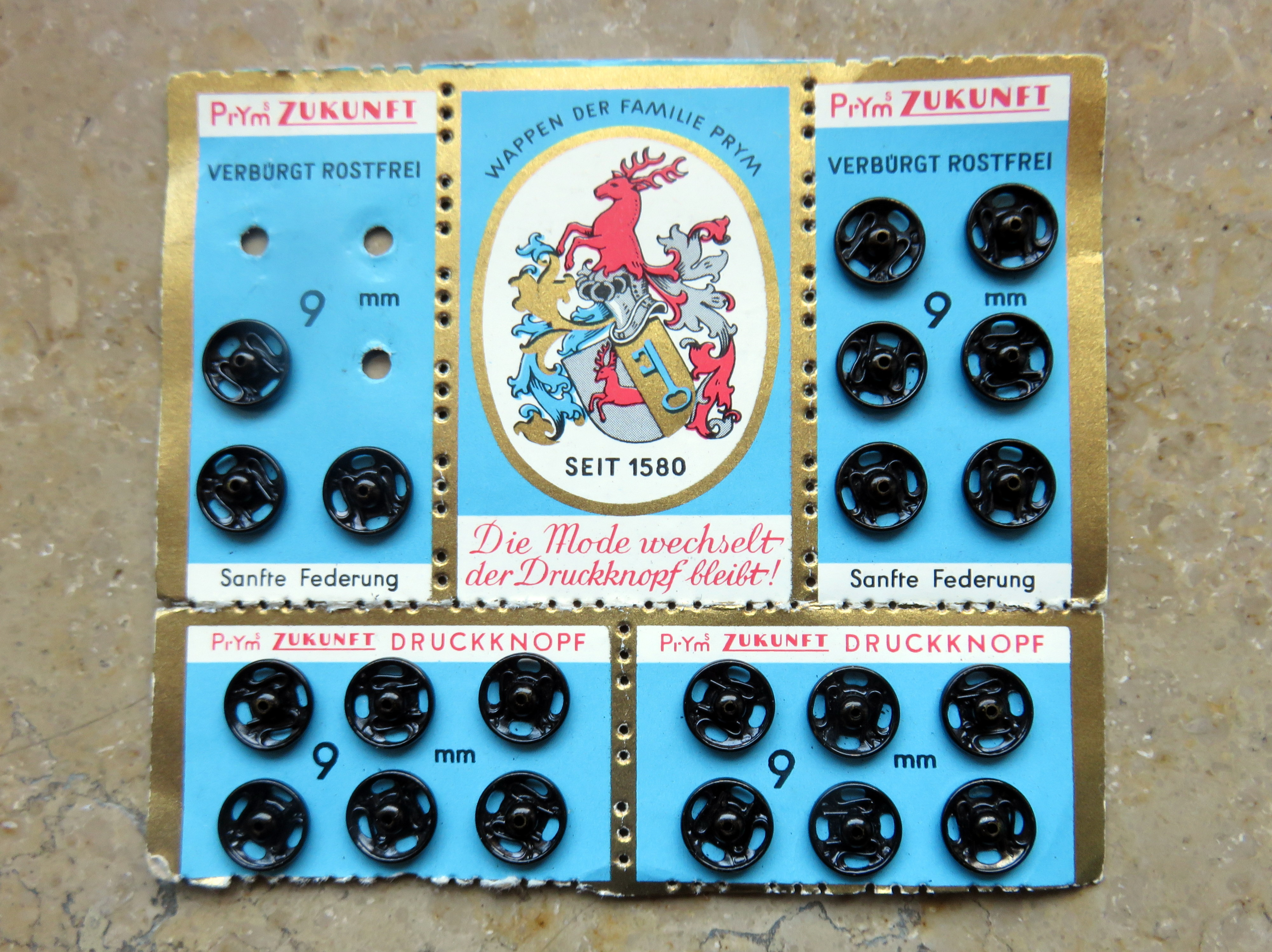 Old perforated snap fastener card, brand name Pryms Zukunft (Prym's future), 9 mm, of Prym enterprise (family business). Front with old family coat of arms.